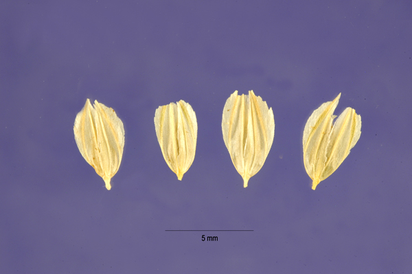 U.S. National Seed Herbarium image: Flower of Phalaris aquatica (PI 319073) from Badajoz, Spain for USDA-NRCS PLANTS Database.